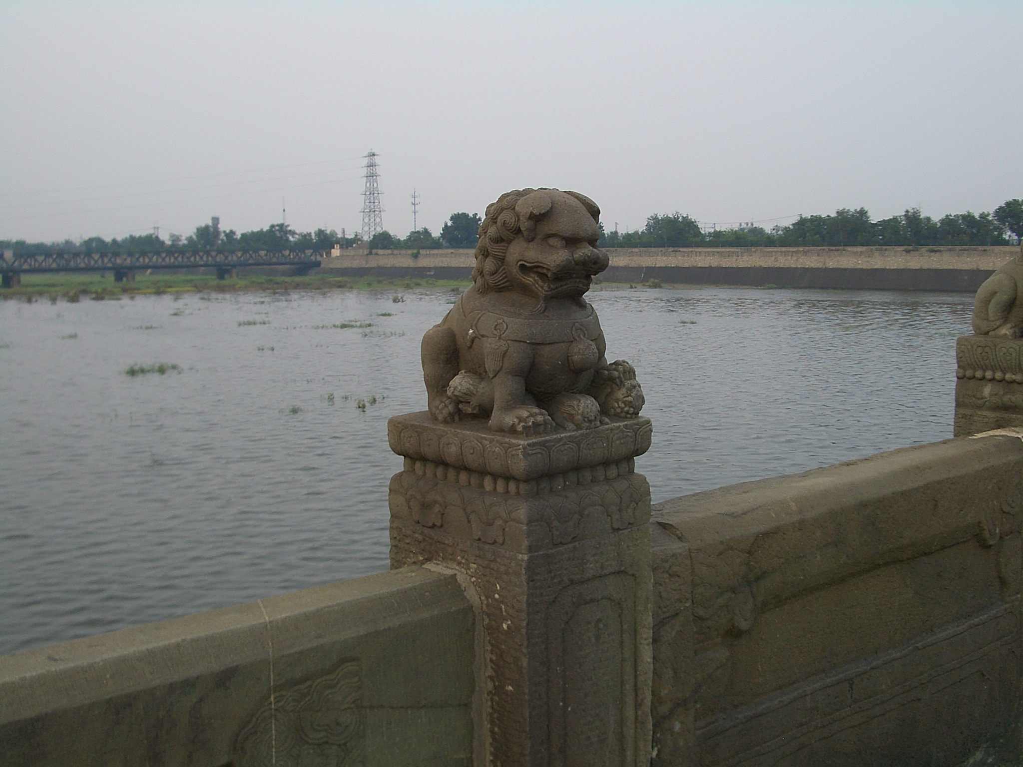 A few of the innumerable stone lions on the Lugou Bridge. Yongding River, flowing under the bridge (some of the time, anyway) in the background.